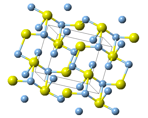 α-Silver(I) sulfide with the unit cell, monoclinic, P21/n, 4 molecules in the cell. According to "Silver sulfide (Ag2S) crystal structure" by Springer Link.